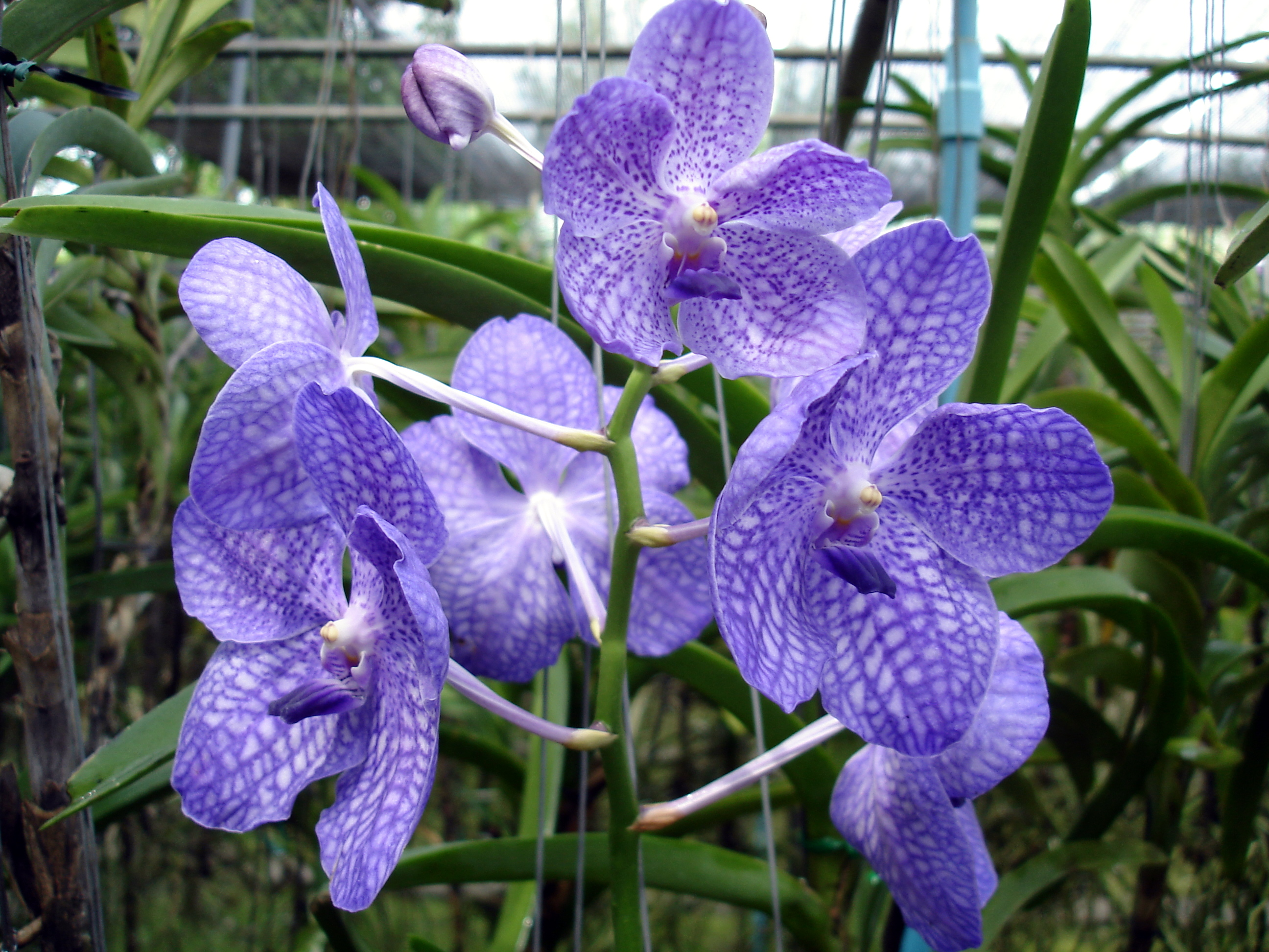 Photograph of an orchid, Chiang Mai, Thailand